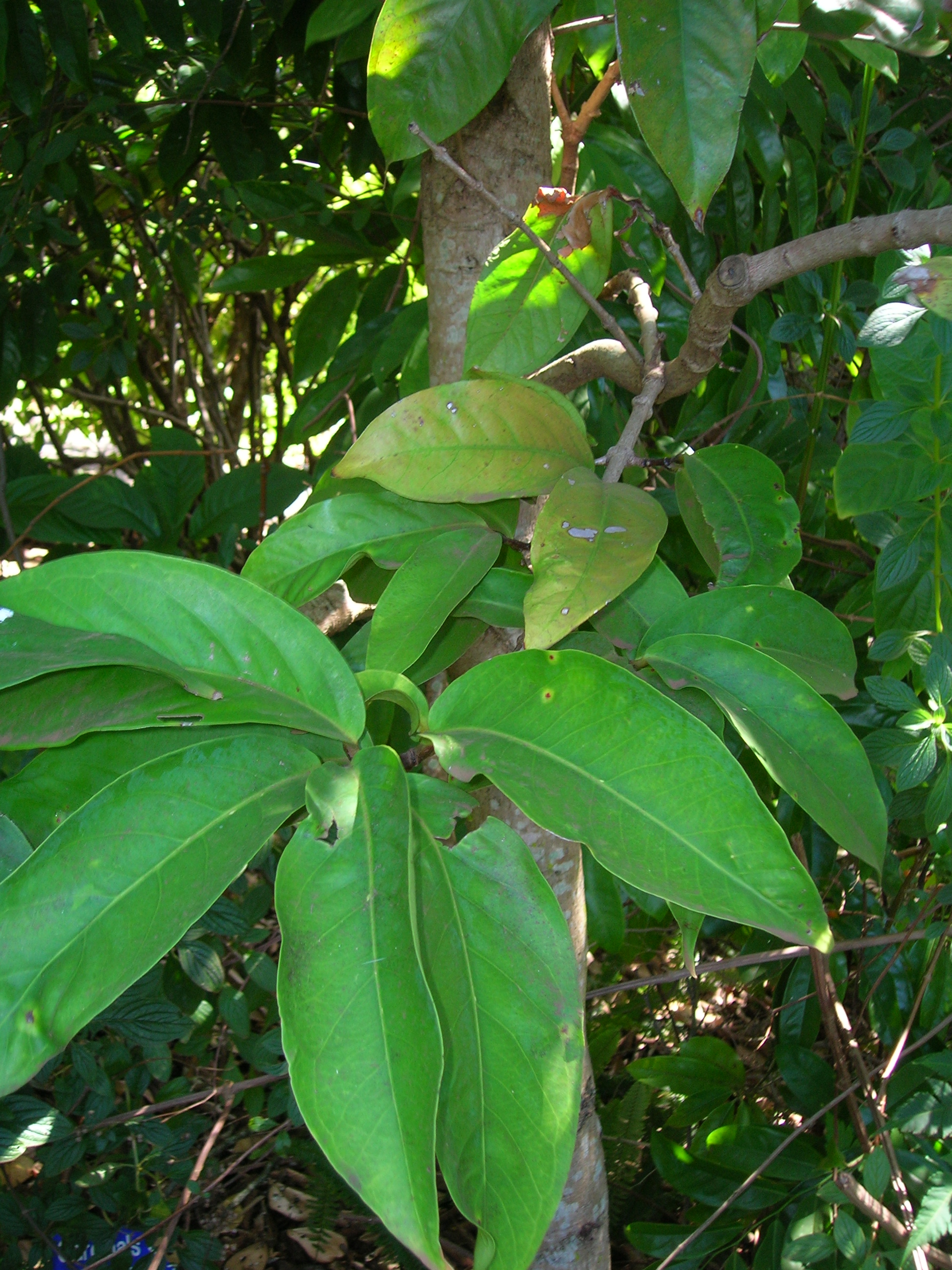 Syzygium malaccense (leaves). Location: Maui, Enchanting Floral Gardens of Kula